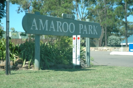 Sign at front of Amaroo Park